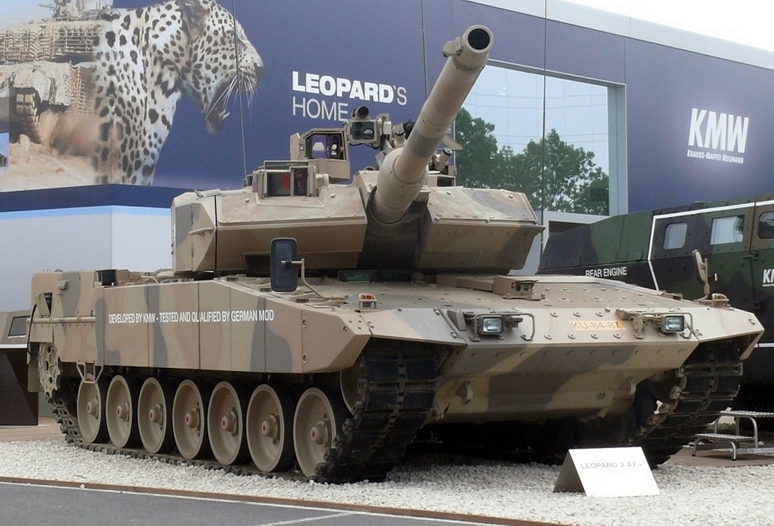 Leopard 2 A7 at Eurosatory 2010.